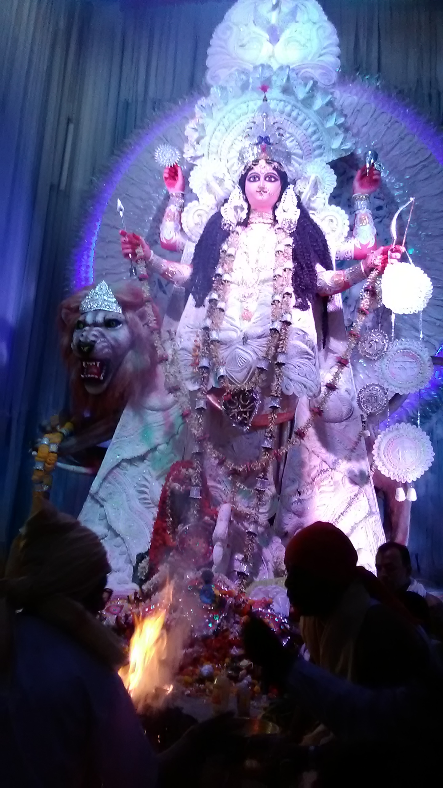 She is another form of Durga The festival is especially famous in Chandannagar , former French Chandernagor , as the festival gained in beauty due to French - Bengali collaboration at its' very conception